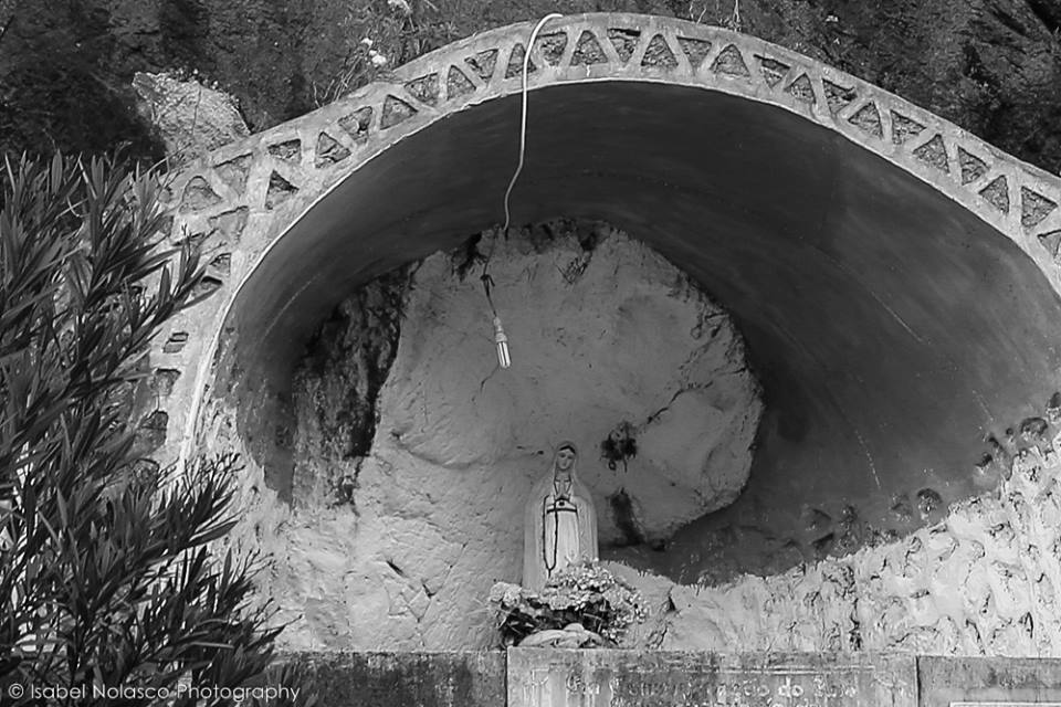 Virgin Mary in an altar in Hatu-Builico, at Ramelau's foothills.